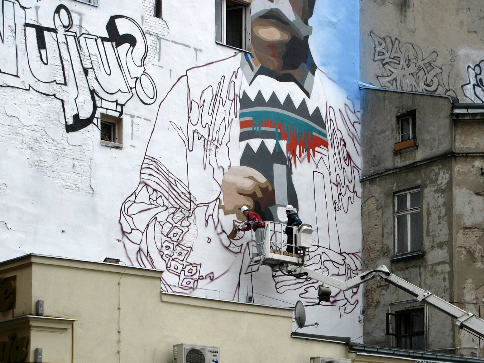 Making of commercial mural in Lodz